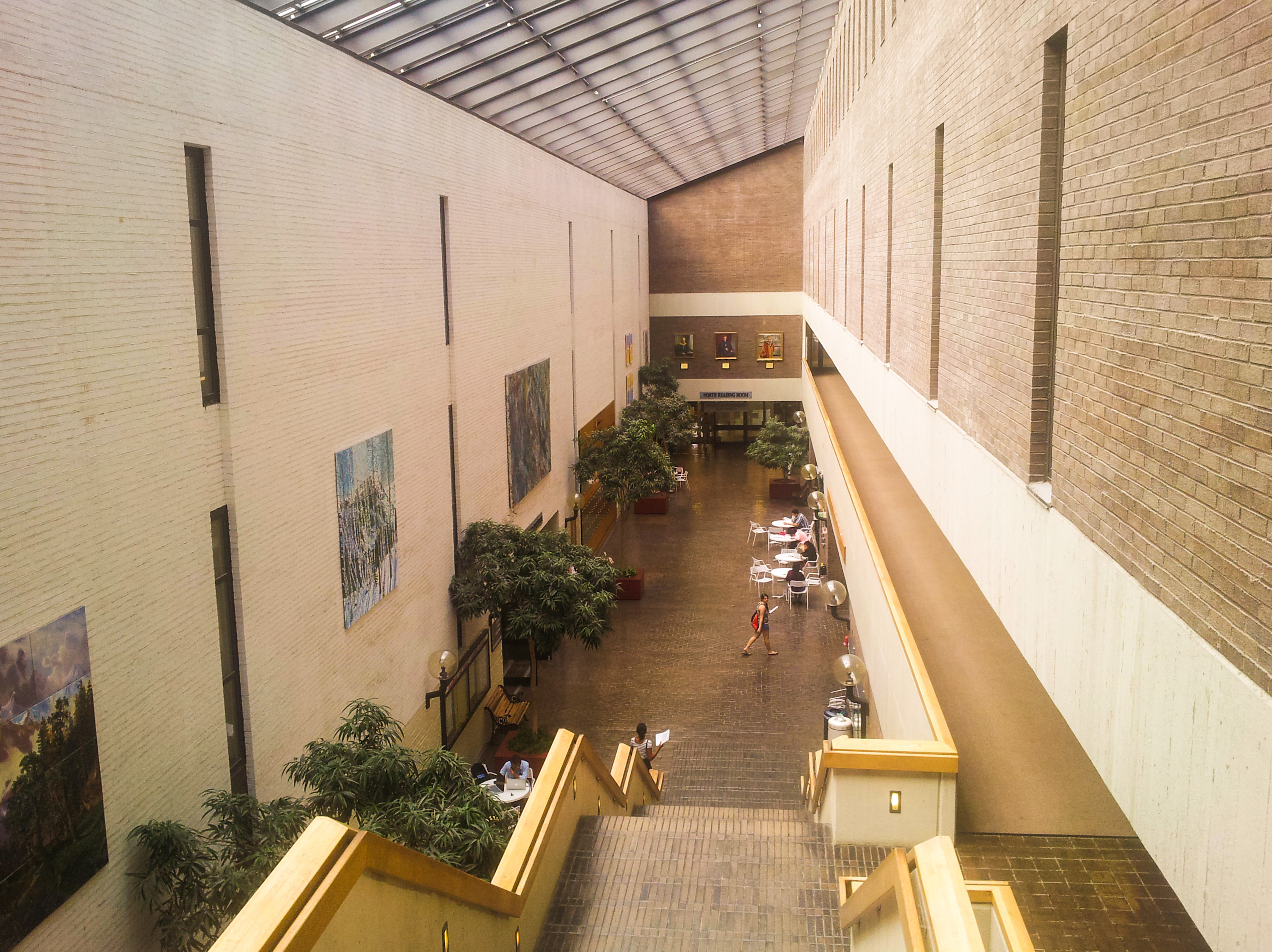 Atrium of the Frank Melville Jr. Memorial Library, seen from staircase at to main stacks